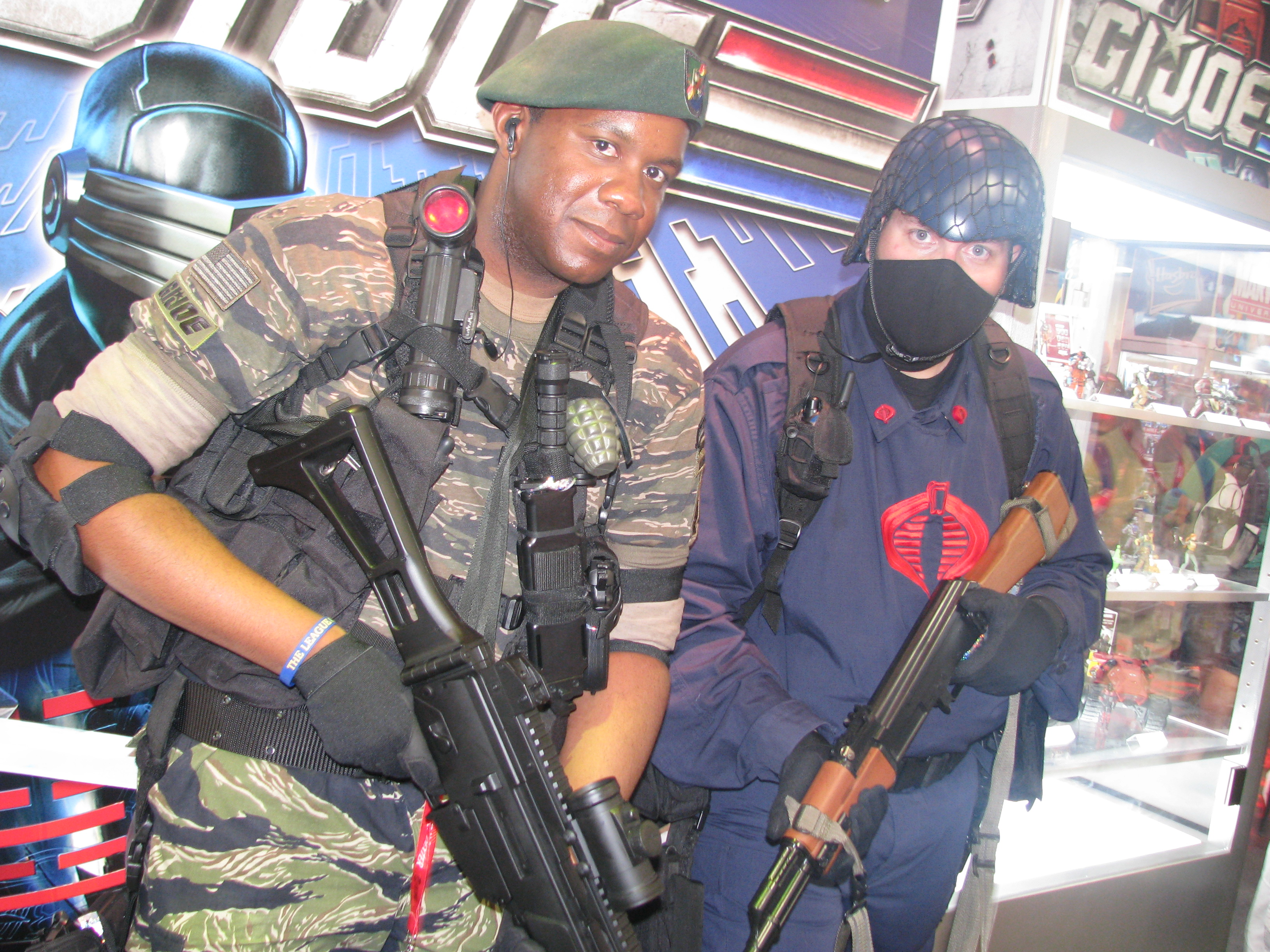 Cosplay at San Diego Comic Con (SDCC) 2011.